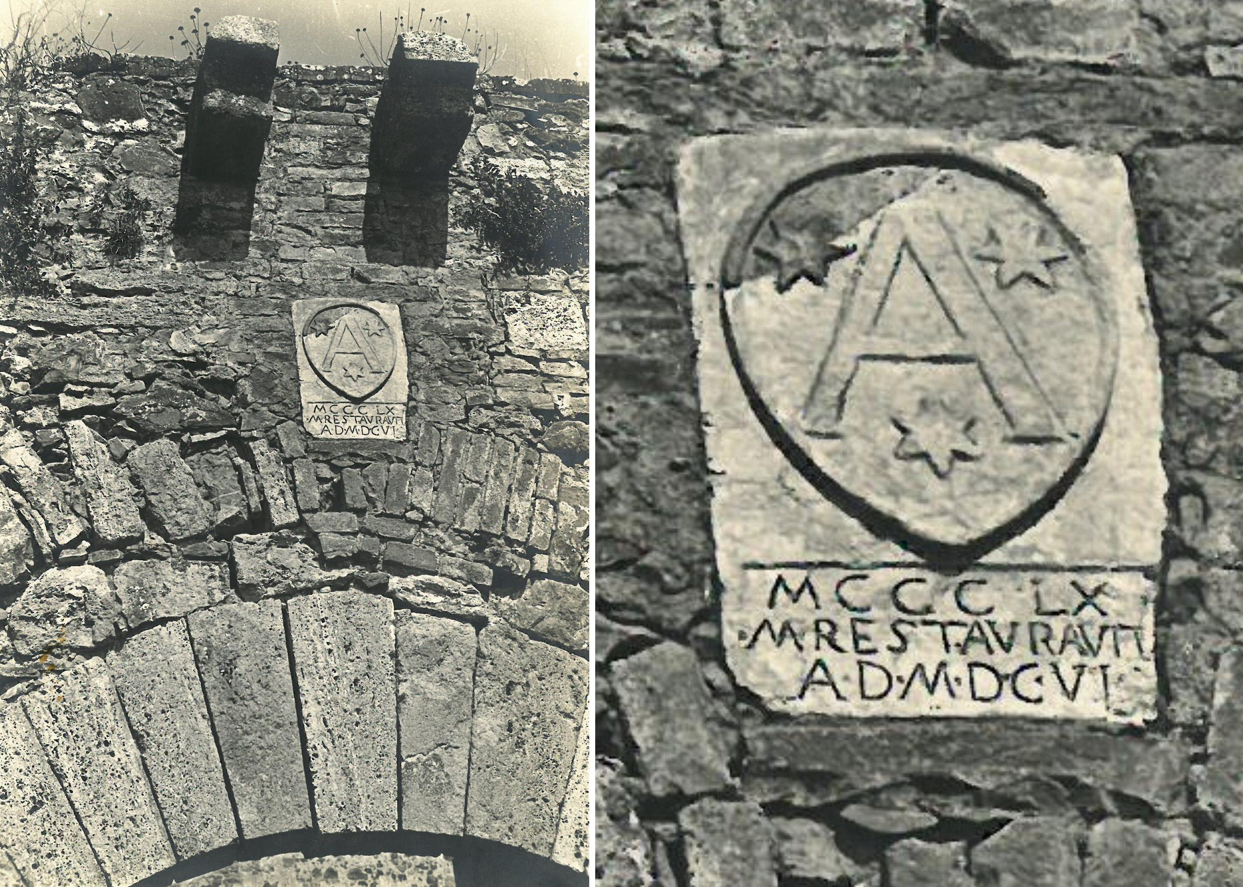 Coat of arms on the door of the little castle of Vignoni (before 1966) (San Quirico d'Orcia) Siena particular (detail)